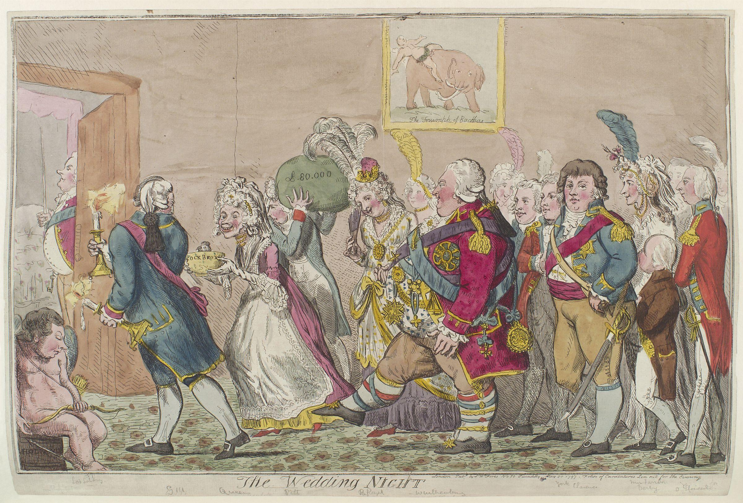 The wedding night, published 1797. All images in this batch have been confirmed as author died before 1939 according to the official death date listed by the NPG.